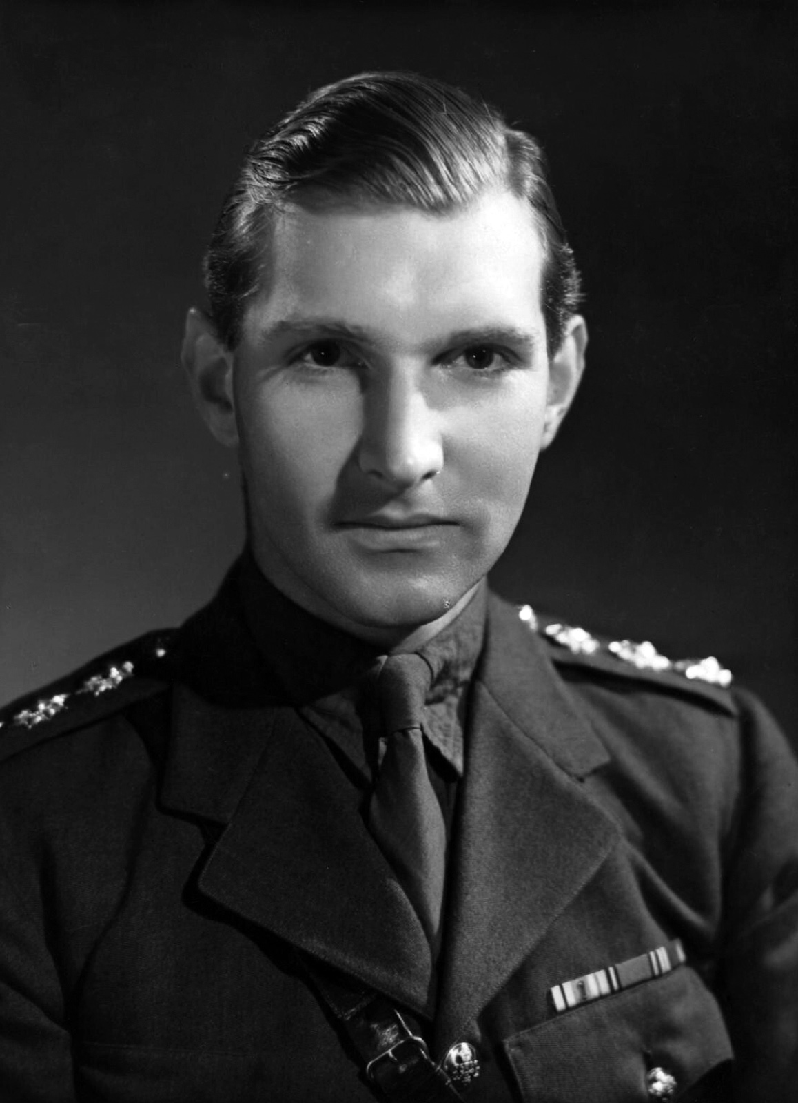 Capt. Alexander Ramsay of Mar, by Bassano, Ltd.